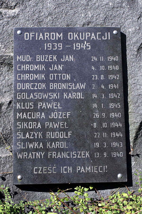 Memorial plaque to local victims of World War II in Doubrava (Dąbrowa), Czech Republic People on the plaque: Jan Buzek, Polish politician, died in Dachau concentration camp Jan Chromik, Polish teacher, died in Mauthausen-Gusen concentration camp Otton Chromik, Polish teacher, died in Mauthausen-Gusen concentration camp Bronisław Durczok, Polish teacher, died in Mauthausen-Gusen concentration camp Karol Golasowski, Polish agricultural worker and member of Związek Walki Zbrojnej resistance army, died in Gross-Rosen concentration camp Paweł Klus, Polish coal miner, member of the resistance group of the Communist Party of Czechoslovakia, died in Gross-Rosen concentration camp Józef Macura, Polish teacher, died in Mauthausen-Gusen concentration camp Paweł Sikora, Polish agricultural worker and member of Związek Walki Zbrojnej resistance army, died in Gross-Rosen concentration camp Rudolf Ślażyk, Polish coal mine administrative worker, shot to death without sentence Karol Śliwka, Polish politician, died in Mauthausen-Gusen concentration camp Franciszek Wratny, Polish coal mine technician, died in Mauthausen-Gusen concentration camp